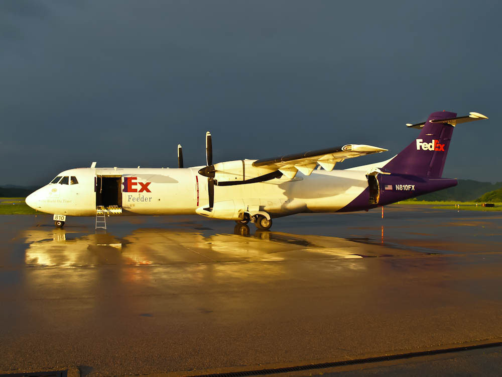 ATR 72